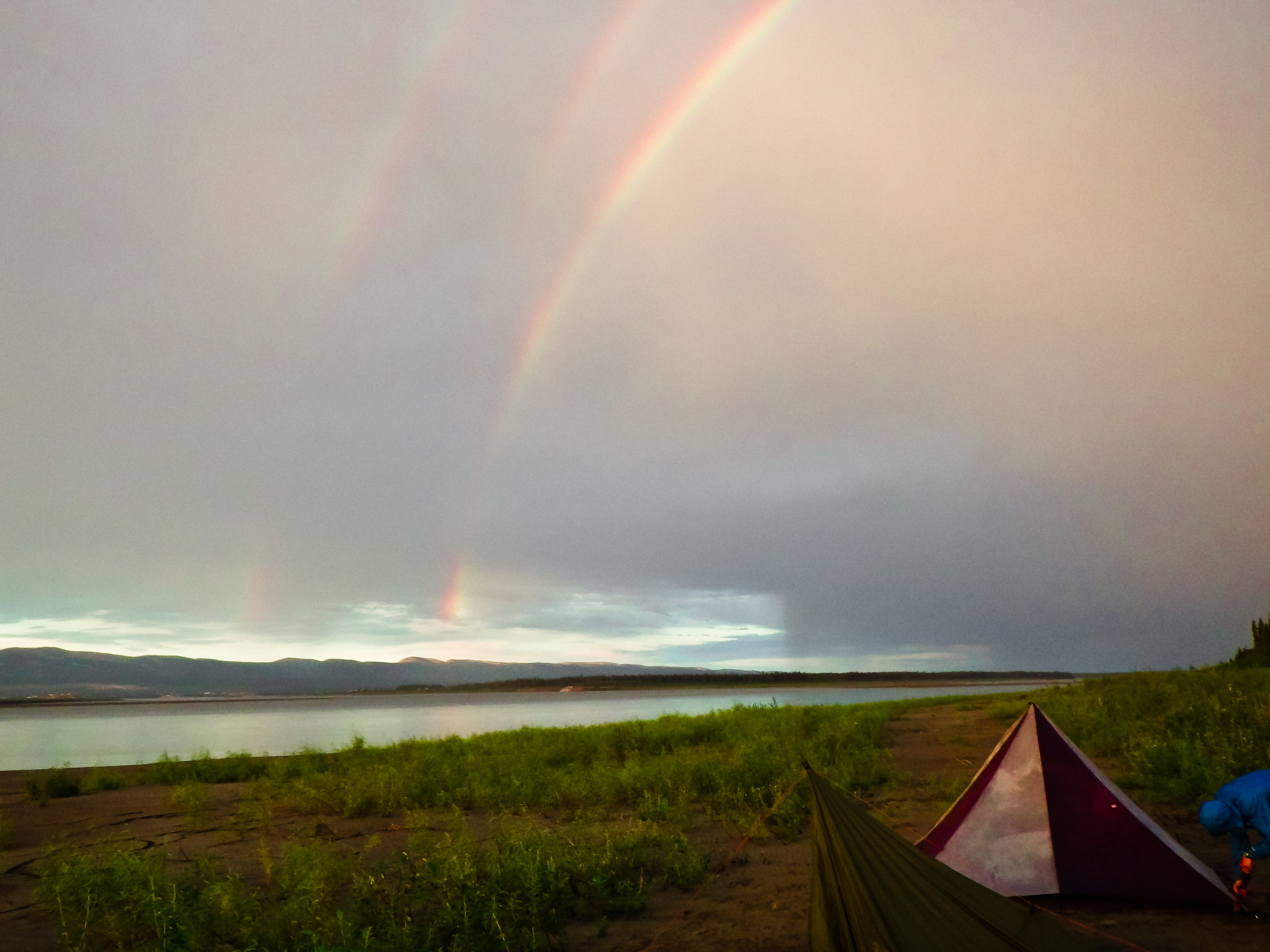 This is what greeted us when we reached the Mackenzie River